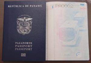 Front cover and inside page of a Panamanian biometric passport